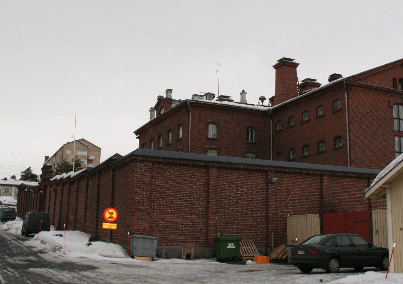 Picture of Kuopio Prison. Finland. Author: Jyrki Heinonen, Joutseno, Finland